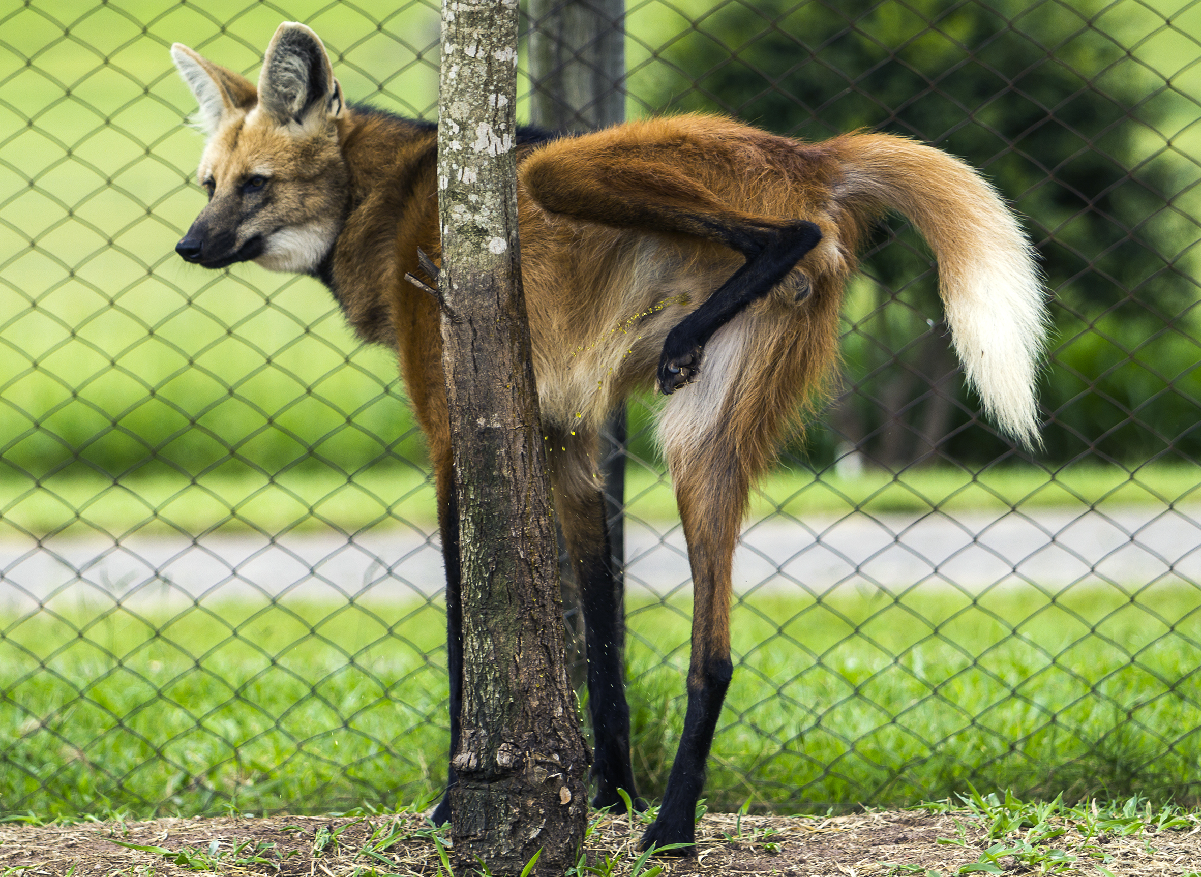 The maned wolf (Chrysocyon brachyurus) is the largest canid of South America, resembling a large fox with reddish fur.This mammal is found in open and semi-open habitats, especially grasslands with scattered bushes and trees, in south, central-west and south-eastern Brazil (Mato Grosso, Mato Grosso do Sul, Minas Gerais, Goiás, São Paulo, Federal District and recently Rio Grande do Sul), Paraguay, northern Argentina, Bolivia east and north of the Andes, and far south-eastern Peru (Pampas del Heath only). It is very rare in Uruguay, being possibly extirpated. IUCN lists it as near threatened, while it is considered vulnerable by the Brazilian government (IBAMA). It is the only species in the genus Chrysocyon. It is locally known as aguará guazú (meaning "large fox" in the Guarani language), lobo de crin, lobo de los esteros or lobo colorado, and as lobo-guará in Brazil. It is also called borochi in Bolivia.